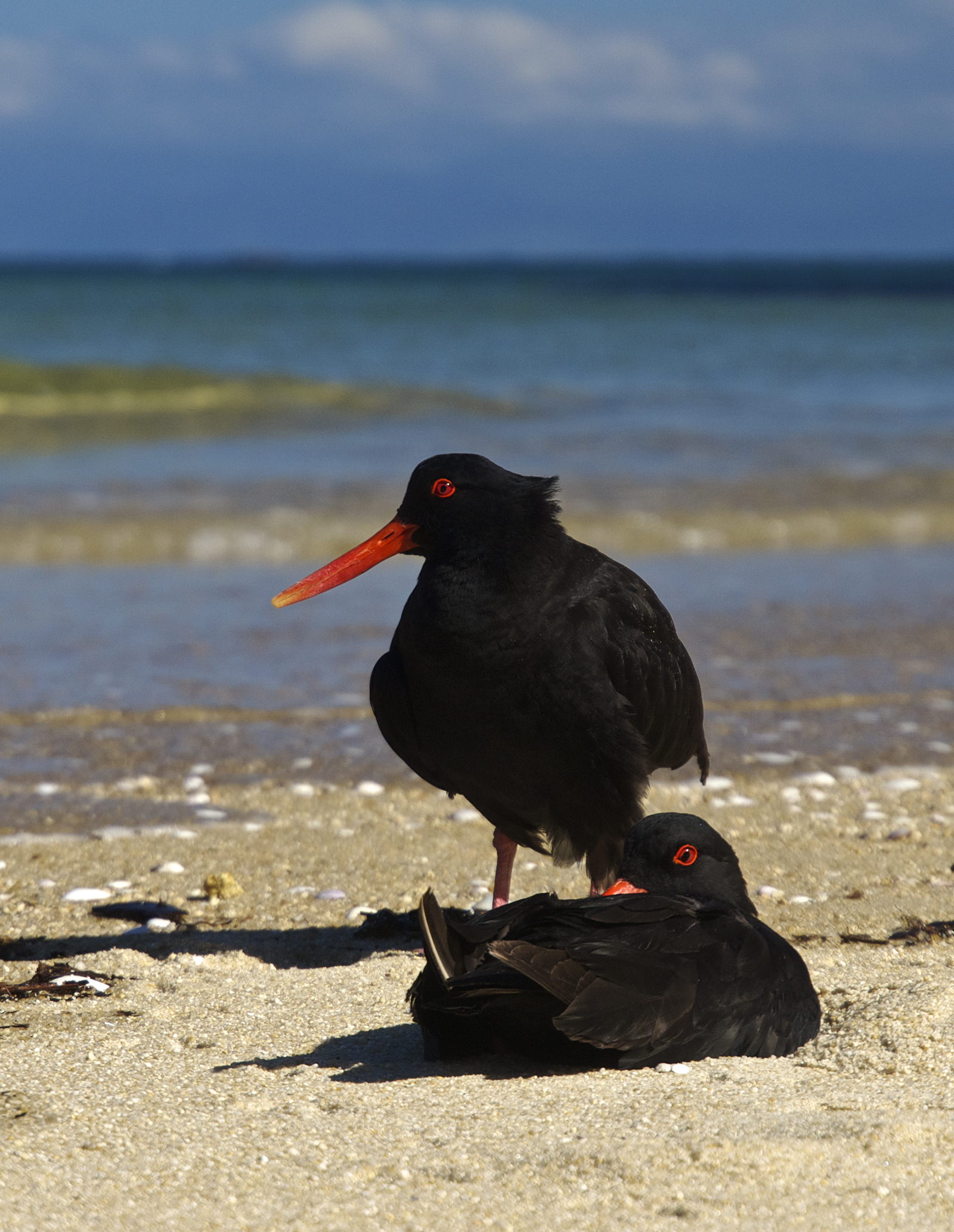 Variable Oystercatcher (Haematopus unicolor), Abel Tasman National Park, New Zealand